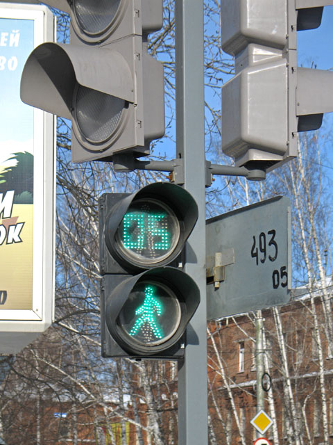 Traffic light for pedestrians in Tomsk, Siberia